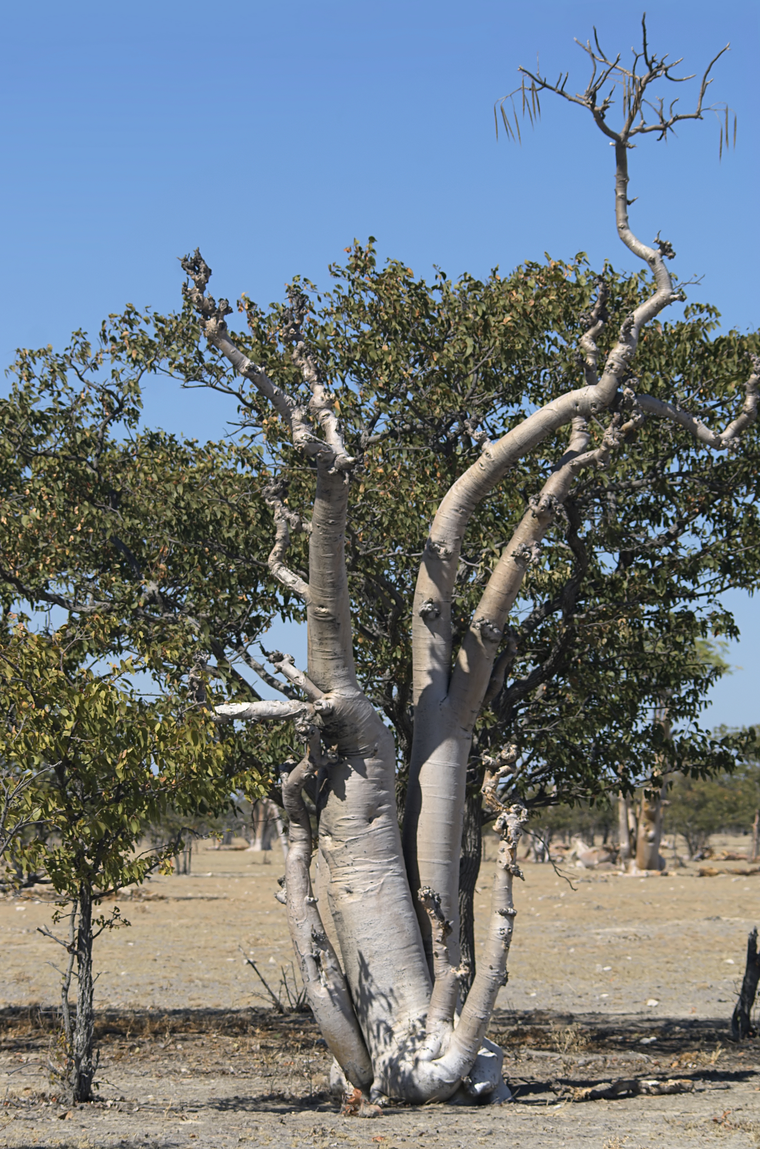 African Moringa tree in fruit, near the Sprokieswoud, Etosha, Namiba